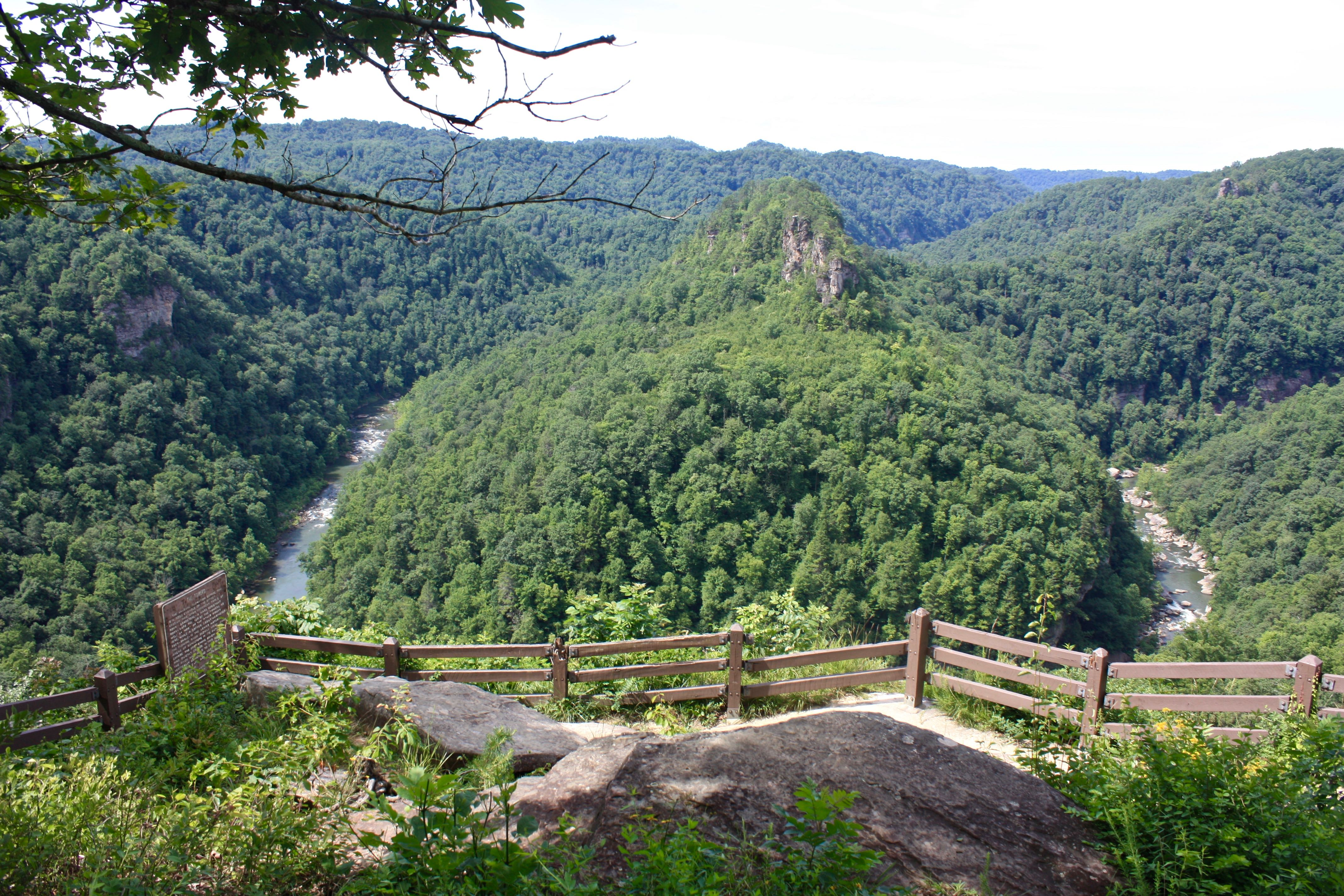 Uploaded by SA for guest blogger Sarah A view from the Towers Overlook at the entrance to the park More about this park here: This is not a Virginia State Park, the link leads you to a website not controlled by DCR or the Commonwealth of Virginia. The 4,800-acre park is off State Route 80 on the Virginia-Kentucky state line, located in Pike County, Ky., Dickenson County, Va., and Buchanan County, Va. As a bi-state park, it receives support from Virginia’s DCR and the Kentucky Tourism, Parks and Heritage Cabinet. The park is managed by the Breaks Interstate Park Commission